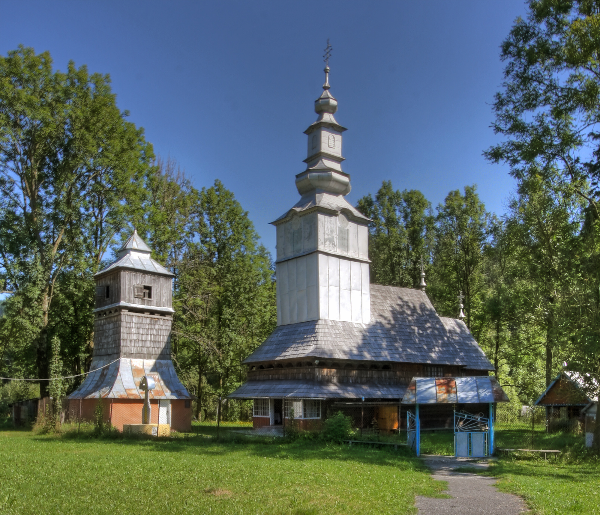 Church St. Nicholas the Wonderworker, Izky, Mizhhiria Raion, Zakarpattia Oblast, Ukraine. Built at the end of 17th or beginning of 18th century (Mykhailo Syrokhman, Churches of Ukraine. Zakarpattia, p. 431ff.)